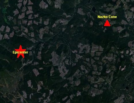 Image of the Nazko earthquake swarm.